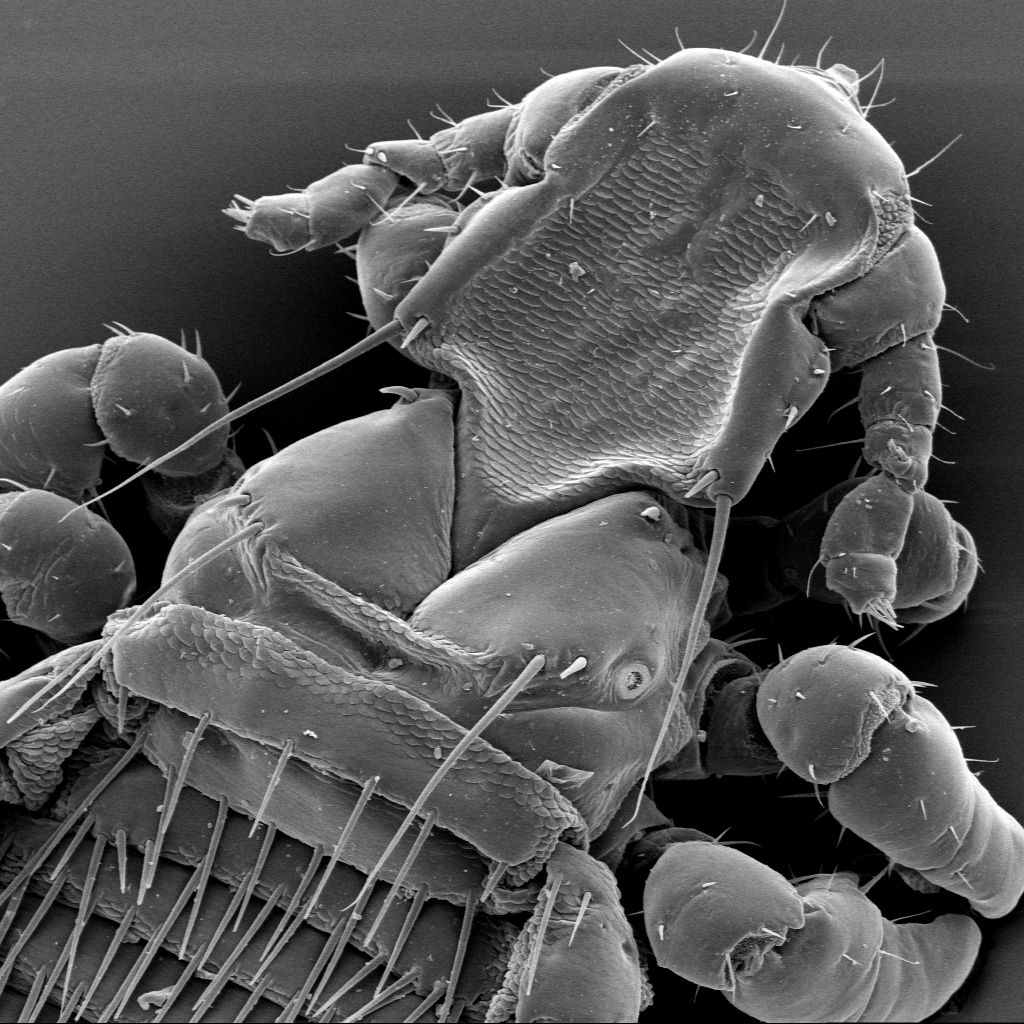 Neohaematopinus sciuri, male, head and thorax, dorsal view, 200x